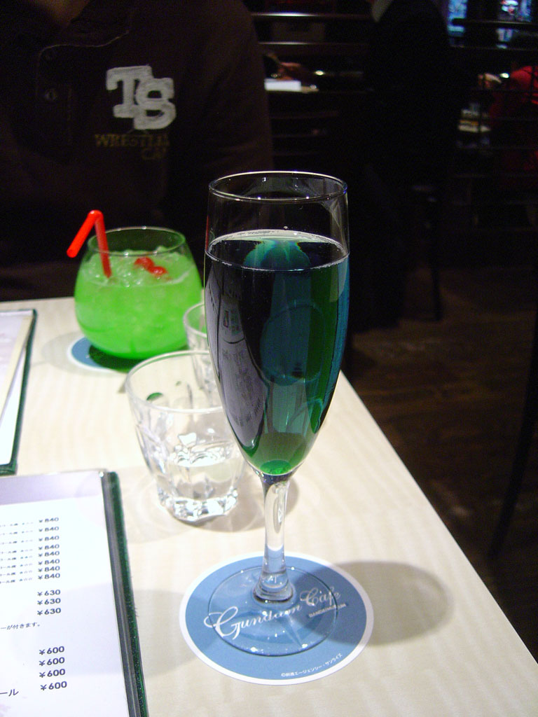 This image was taken at the Gundam Cafe in Matsudo, Chiba, Japan. We see two cocktails: the Athrun Zala mixed cocktail (front) and the Haro mixed beverage (back).